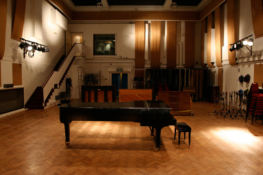 A grand piano and 3 other treasured pianos in Studio 2 of Abbey Road Studios, London.